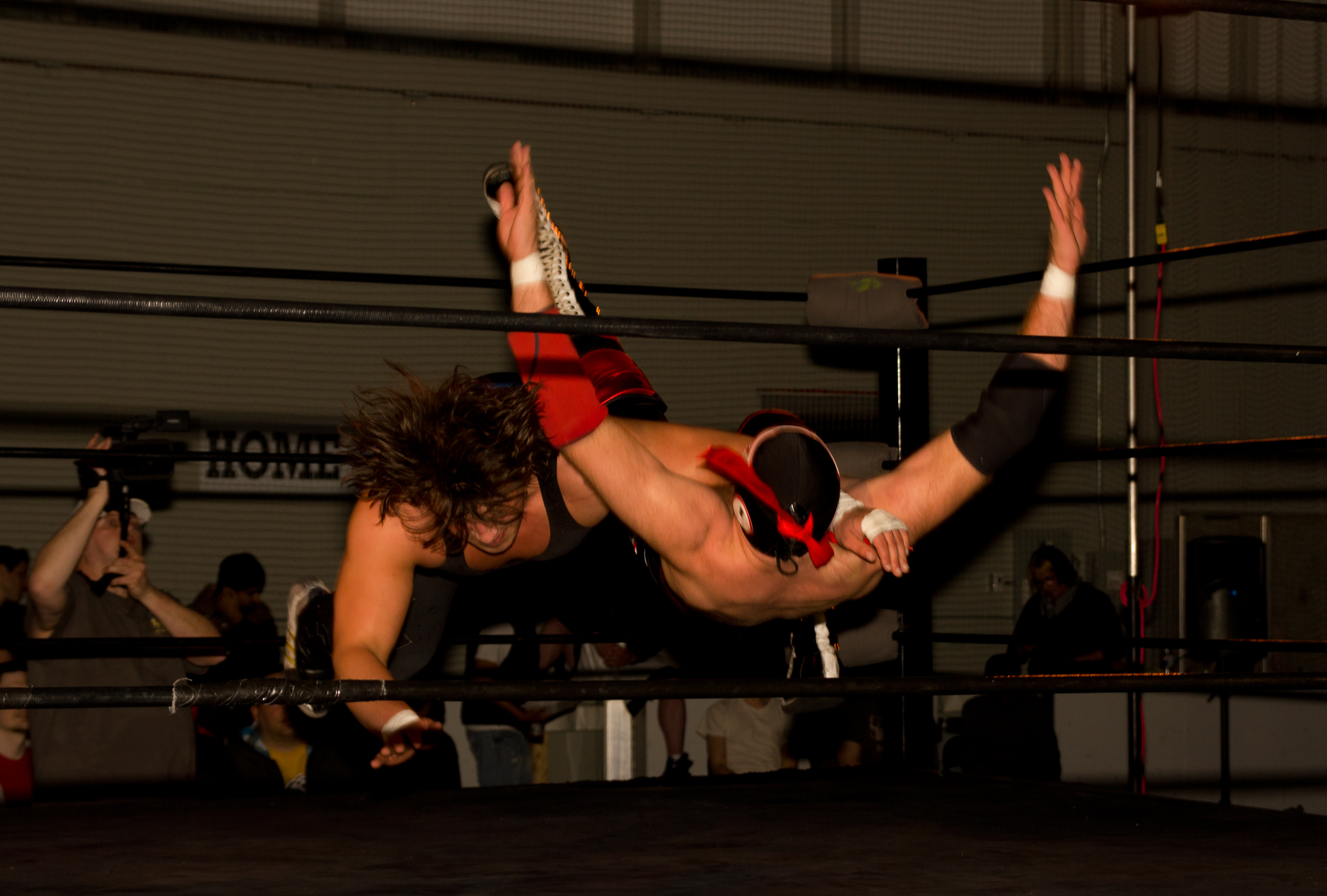 Professional wrestler Tim Donst performing an STO on El Generico at a CHIKARA event.